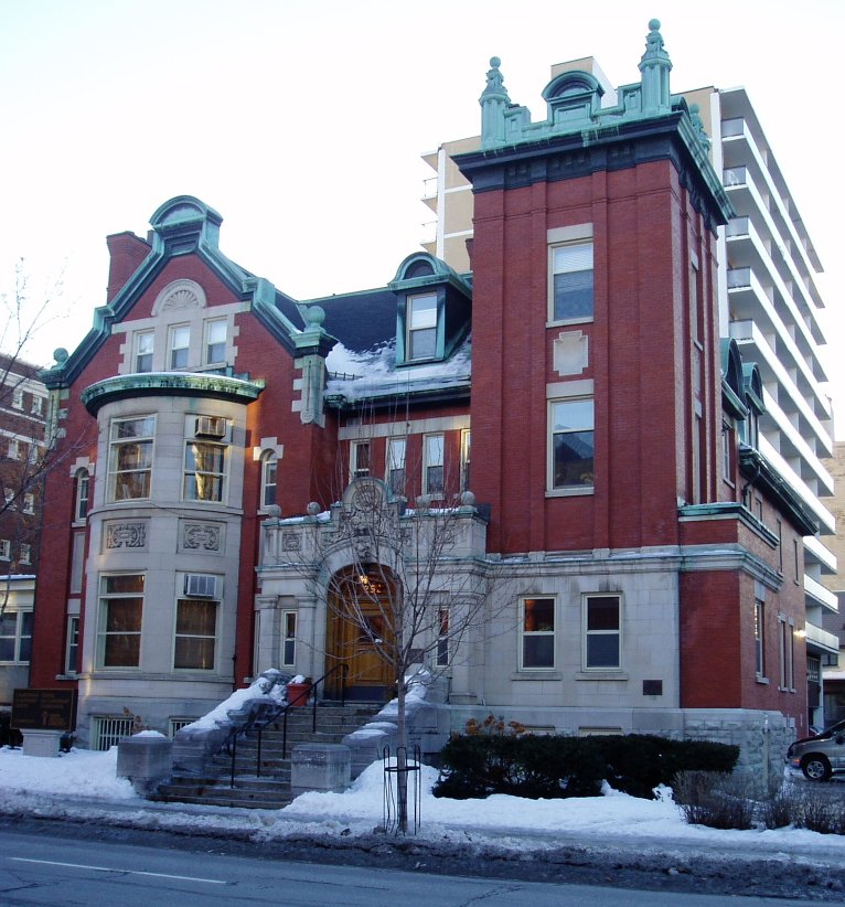 Taken by SimonP in January 2005